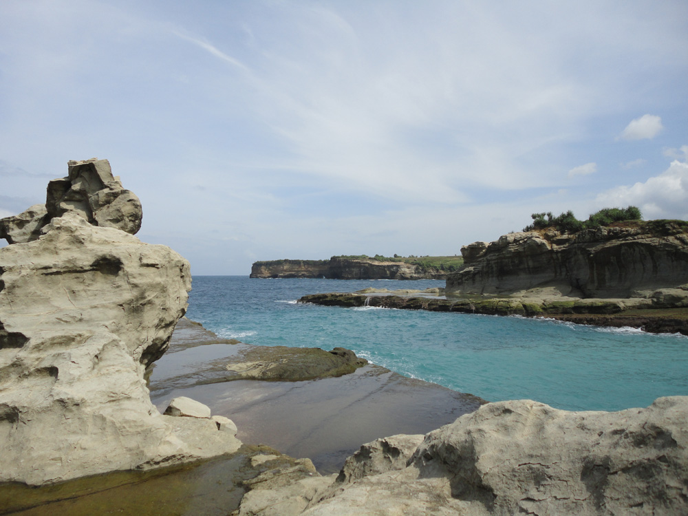 Klayar Beach is a beautiful beach in Subdistrict of Donorojo, Pacitan Regency, Province of East Java, Indonesia